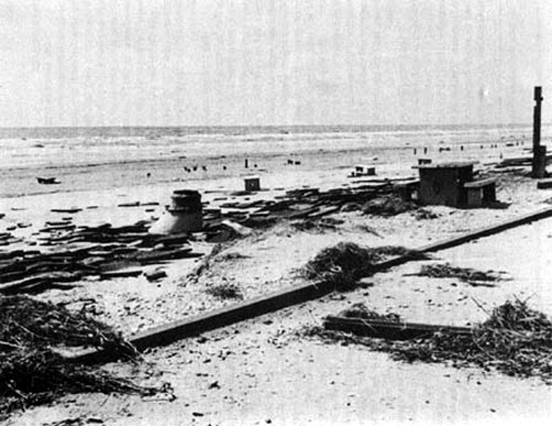 Debris from Hurricane Allen on Padre Island.